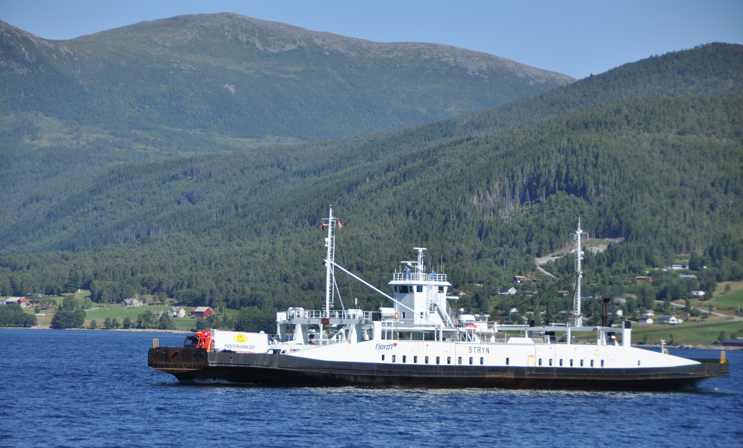 Car ferry "Stryn" crossing Langfjorden from Åfarnes to Sølsnes.